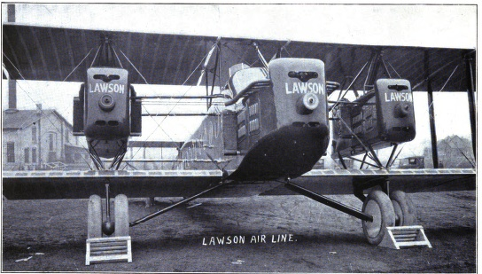 this a photograph of the three version of the Lawson Air transport biplane built in 1920. the L-3 differs from the L-3 in that the L-3 has an additional 400 Hp Liberty motor in the nose and sported sleeping berth and inflight shower. the appearance of missing propellers is because teh blades were turning too fast to be captured on film.